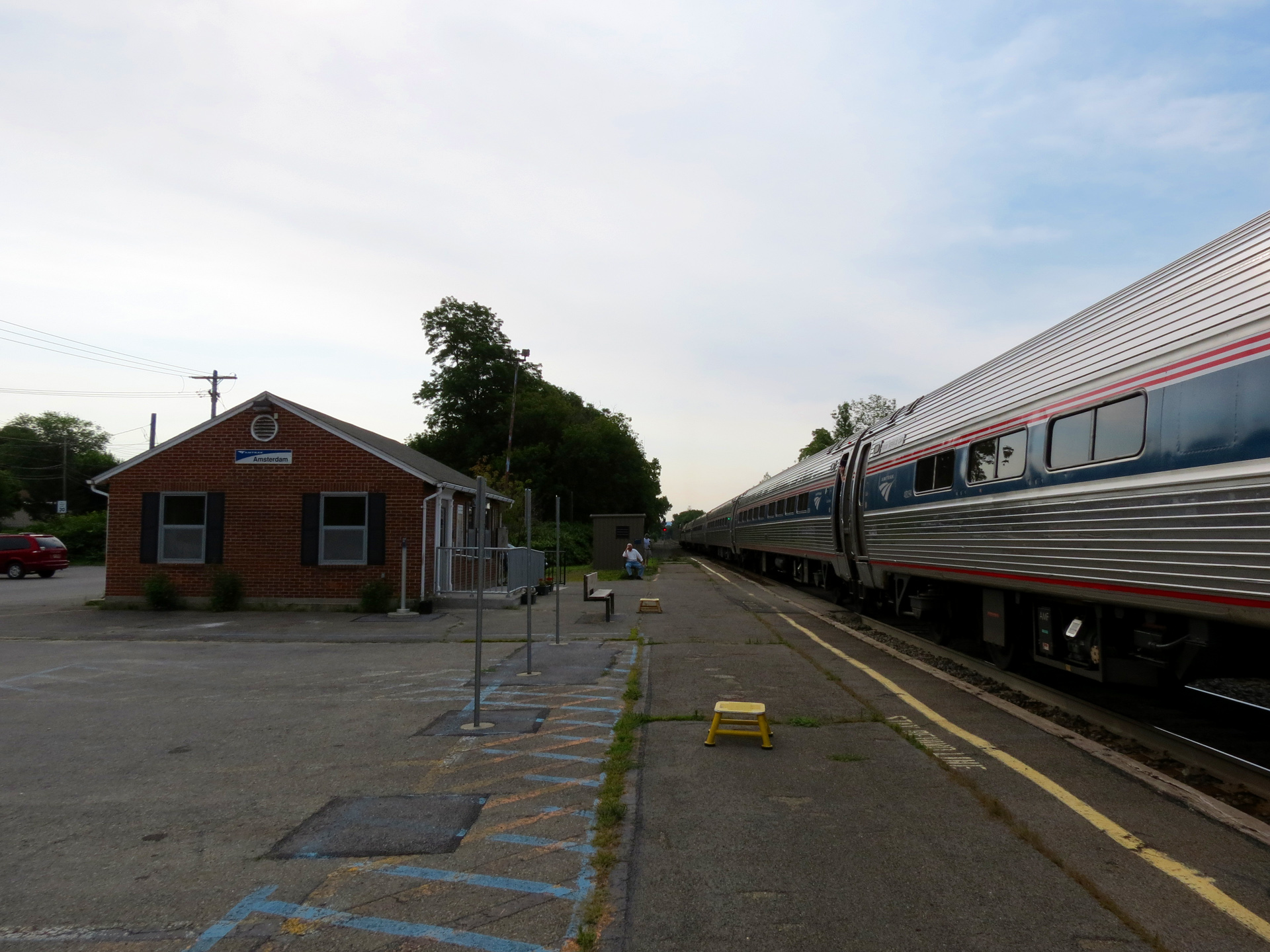 Amtrak Station, Amsterdam, NY